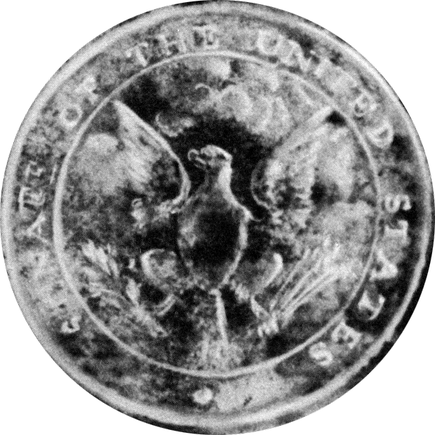 An impression made by the original, 1790s-era Seal of the United States Senate on the 1804 summons for John Pickering for his impeachment trial.